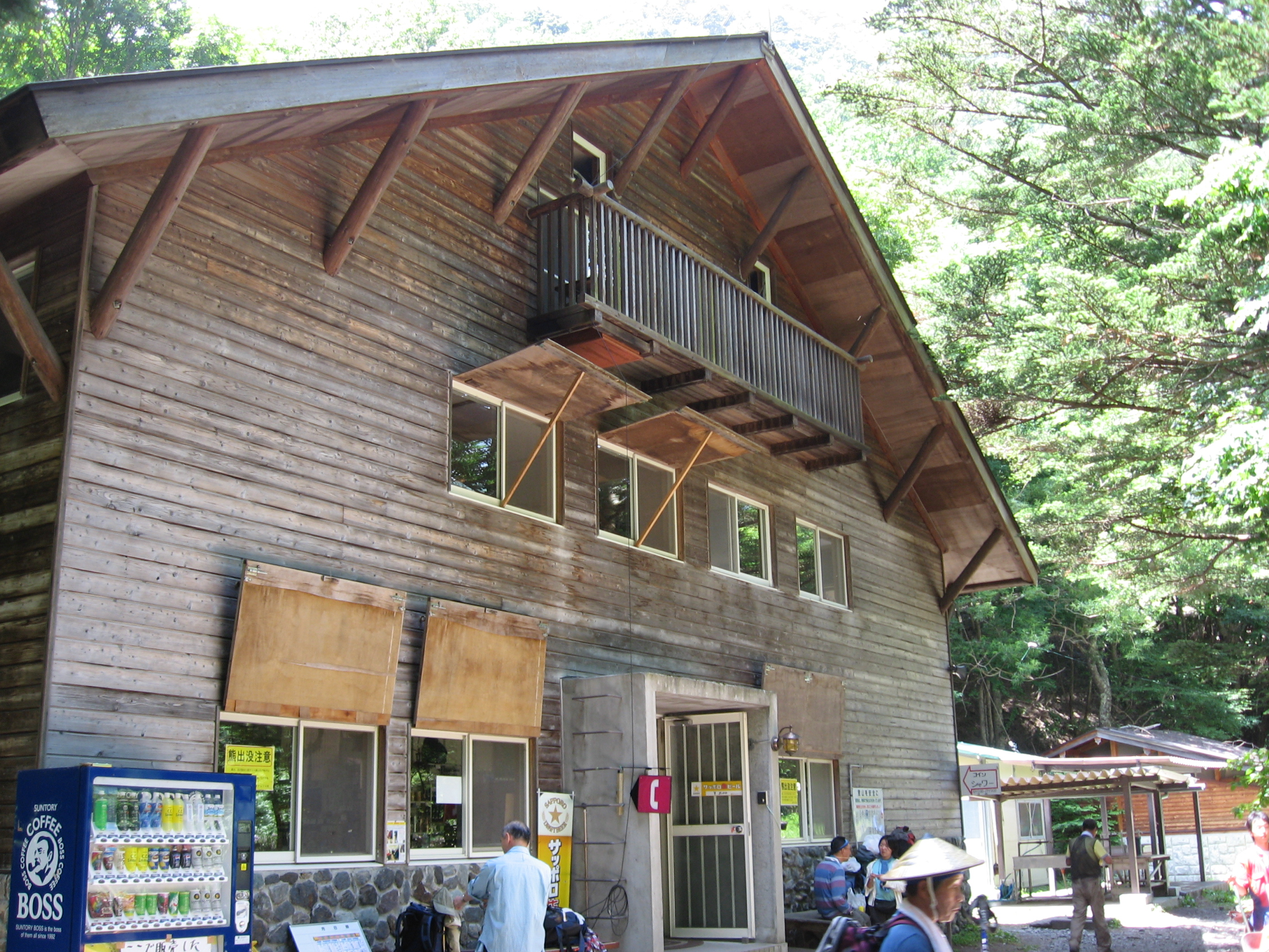 Harogawara-sanso hut (広河原山荘 Hirogawara-sanso) located in Mount Kita (北岳 Kita-dake), Akaishi Mountains, Yamanashi Pref, Japan.